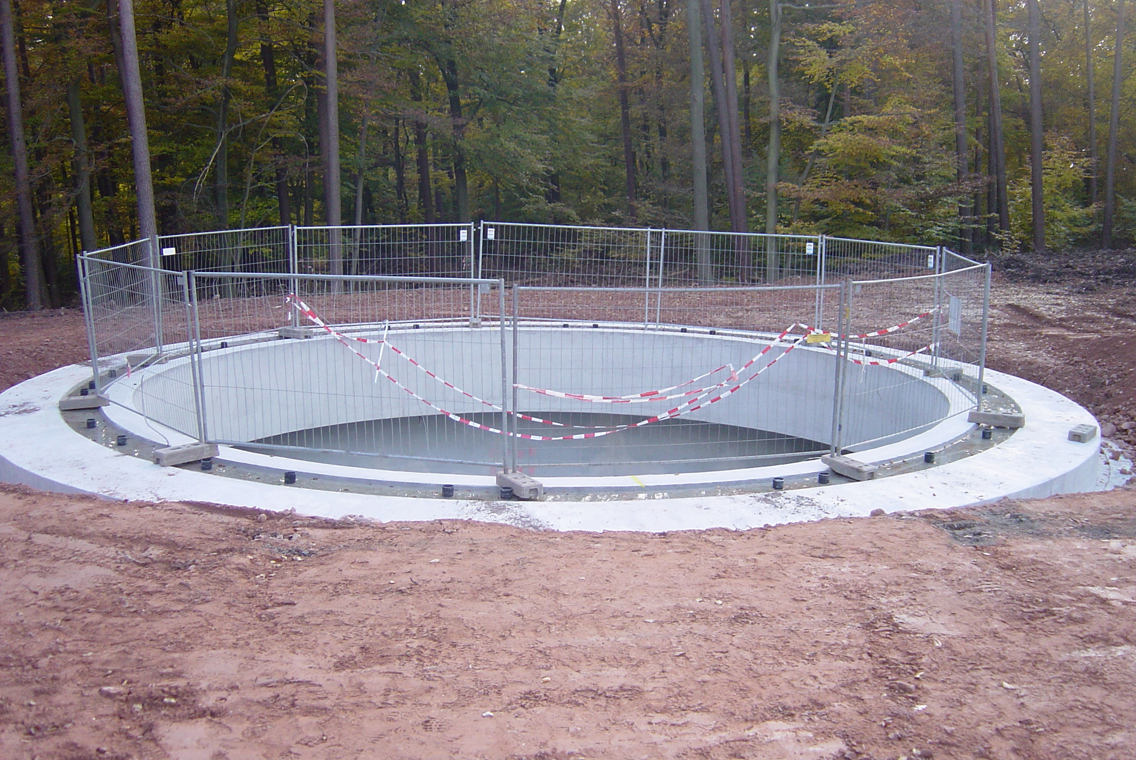 Foundation of an Enercon E-82 in a forest site, concrete tower, hub height 138 m